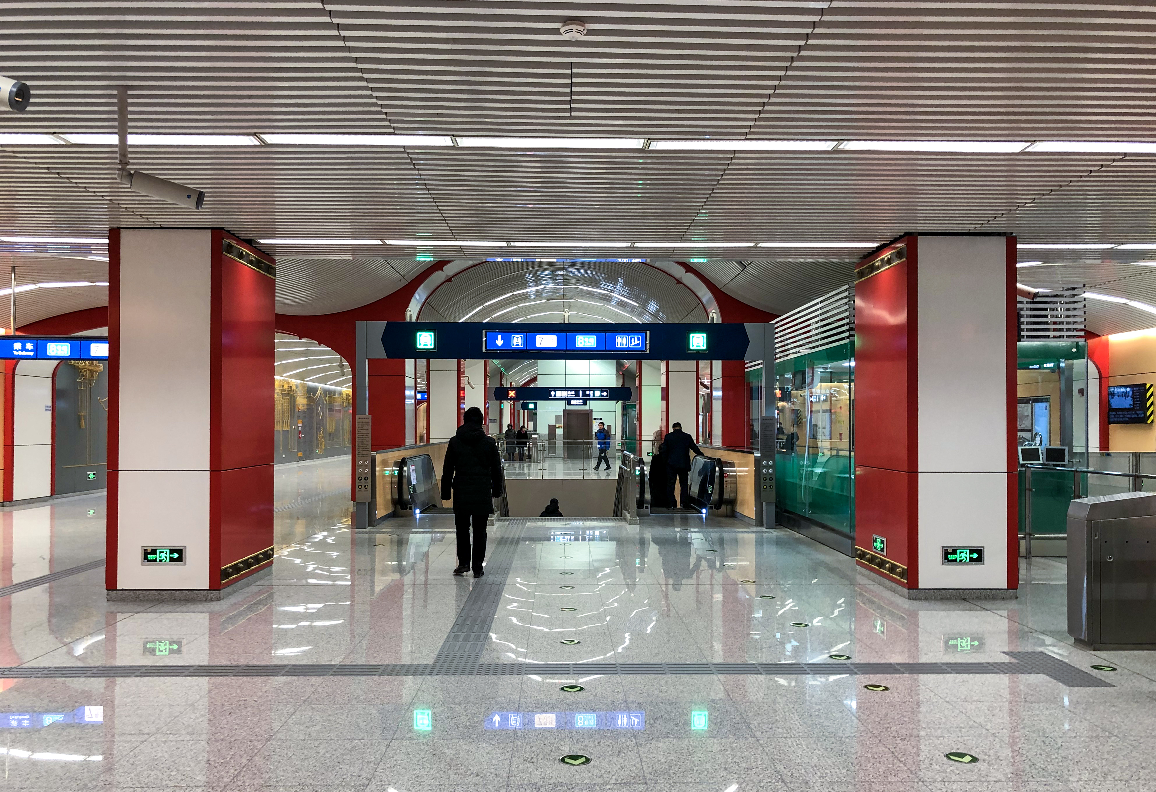 Accessible from Line 7.